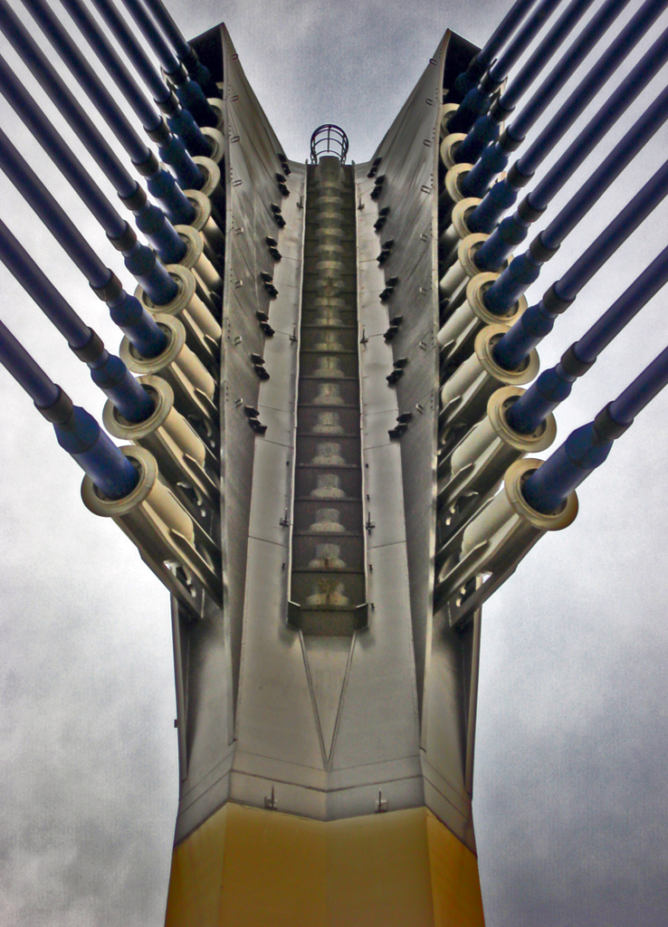 73m high pylon of the Seri Saujana cable-stayed arch bridge in Putrajaya, Malaysia.